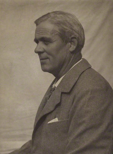 Portrait of Thomas Hiram Holding, father of modern camping